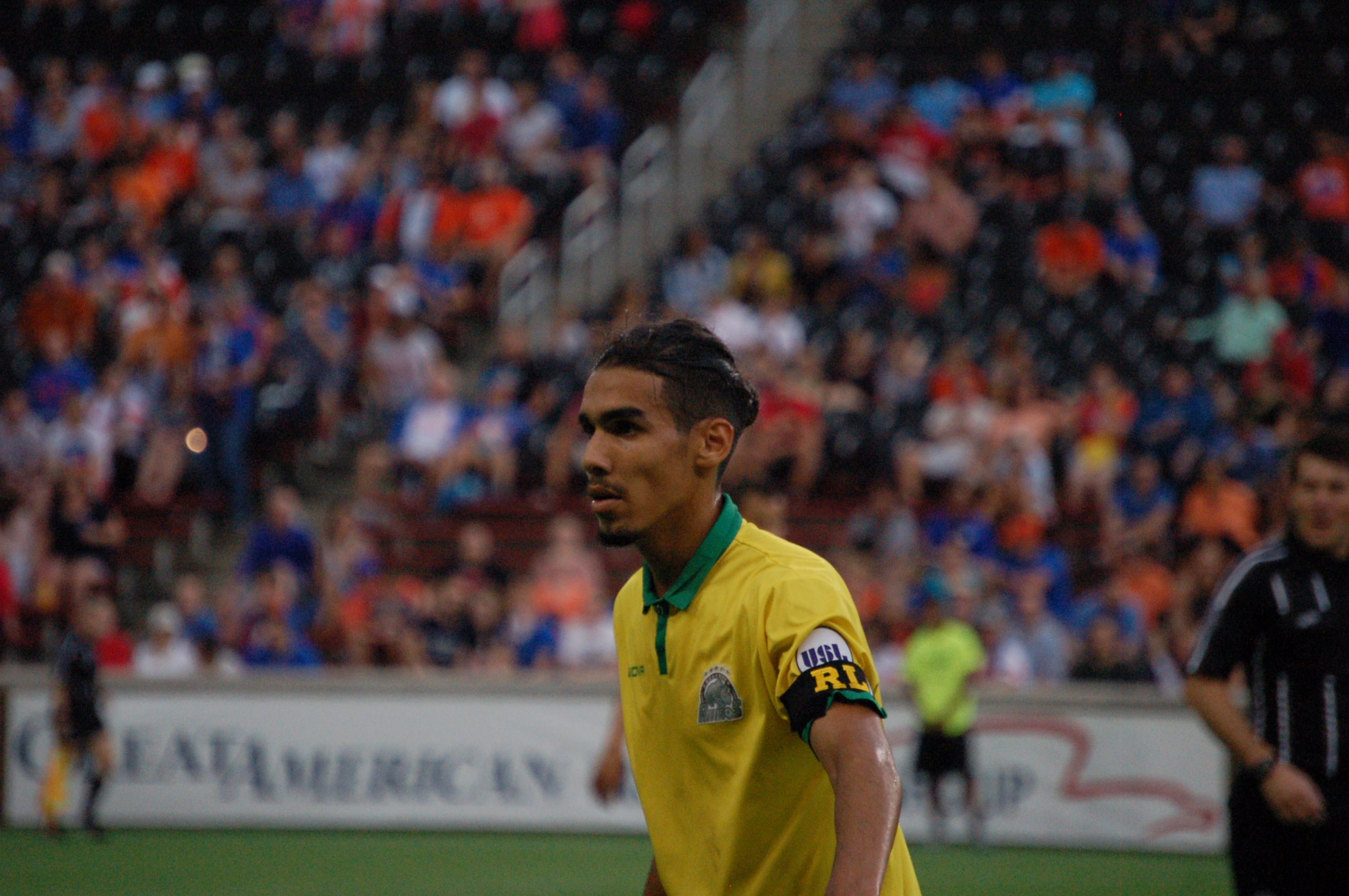 Sofiane Tergou (ROC) Taken during a match between FC Cincinnati and Rochester Rhinos at Nippert Stadium in Cincinnati, USA on August 24, 2016.